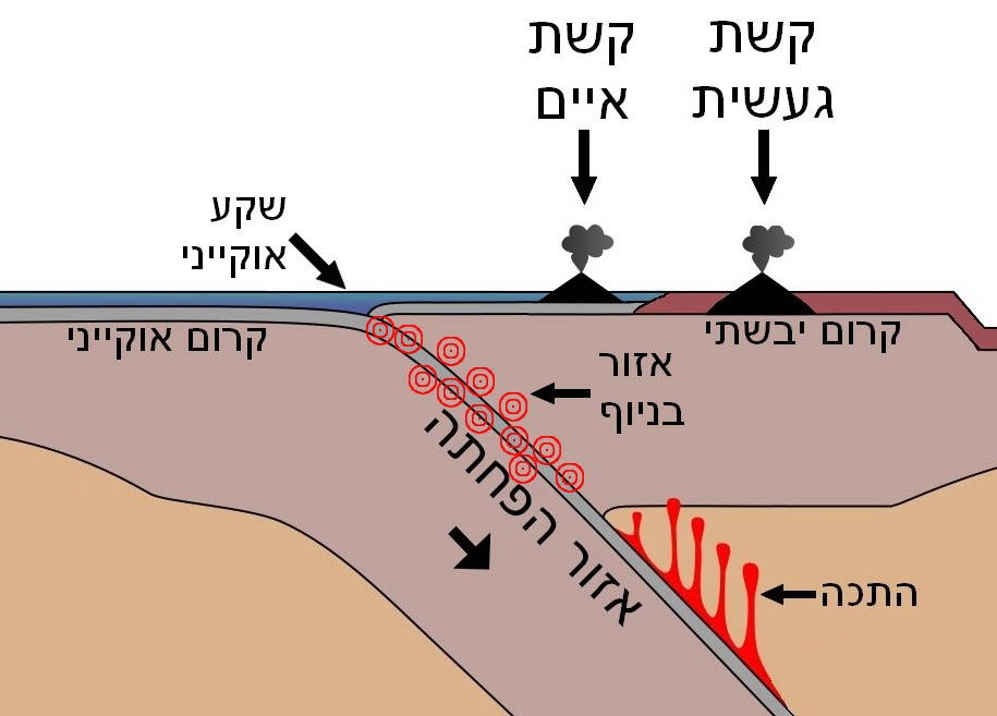 Wadati-Benioff zone